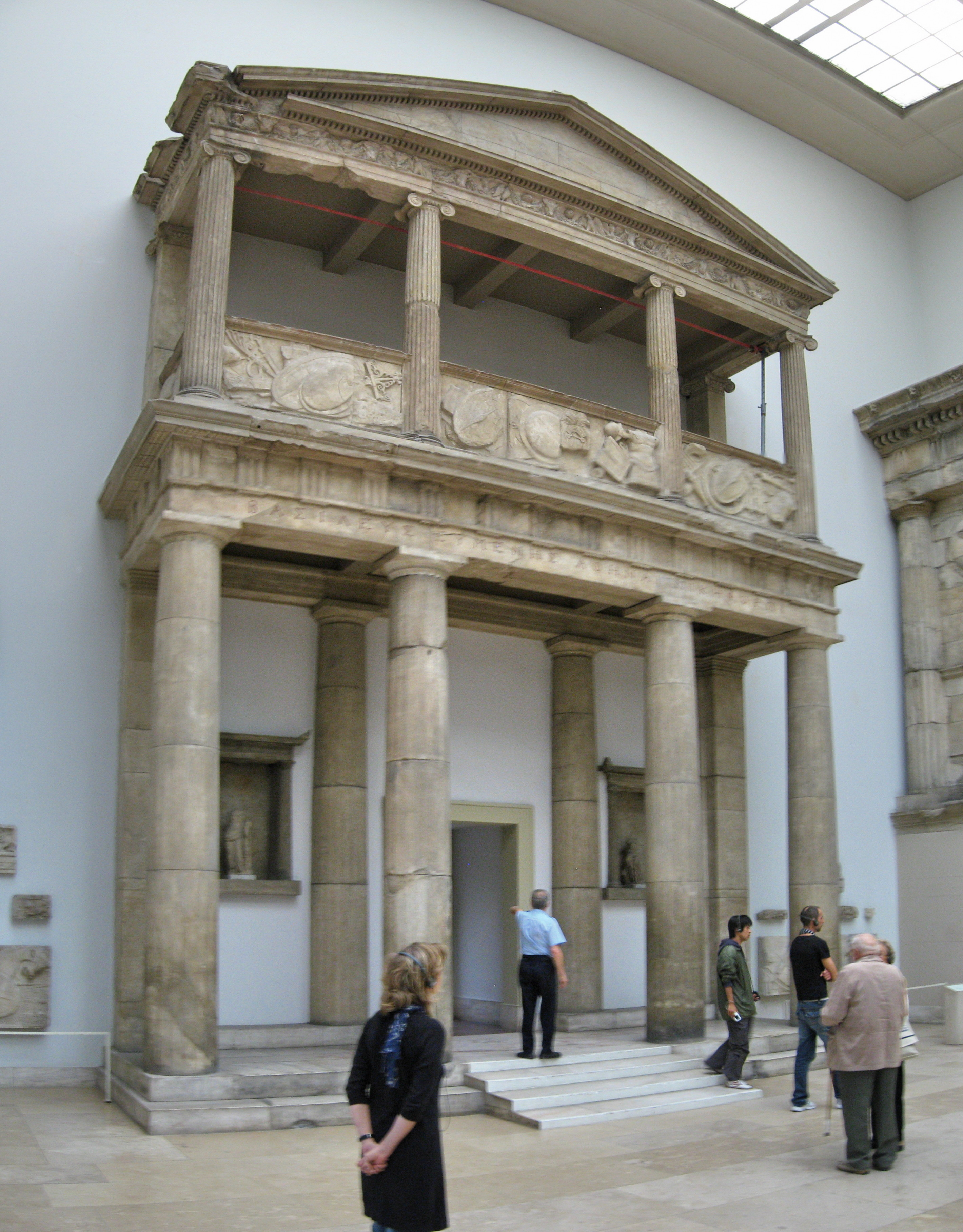 Propylon of the Athena Sanctuary. Reconstruction with original fragments. Marble. 2nd century BC.